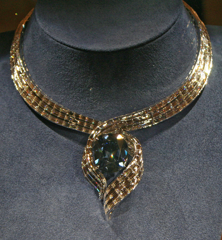 Image shot by me in early March 2011 in Washington DC, of the Hope Diamond in its new setting at the Smithsonian Museum of Natural History. I grant the right to anyone to use this photo for any articles in Wikipedia Observer31 (talk) 01:56, 24 March 2011 (UTC)